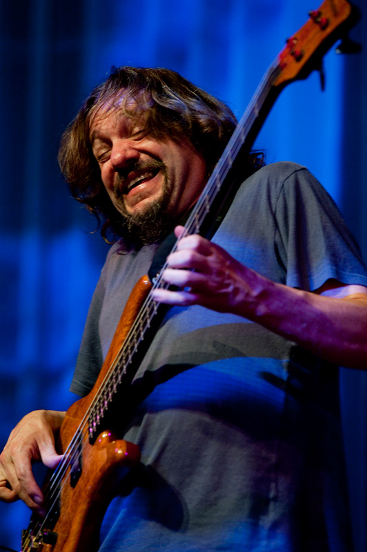 Carlo Mombelli, moers festival 2010